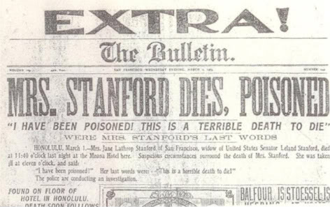 The front page of the San Francisco Bulletin, March 1, 1905. It states: "Mrs. Stanford Dies, Poisoned". The subtitle reads: " 'I have been poisoned! This is a terrible death to die' were Mrs. Stanford's last words."